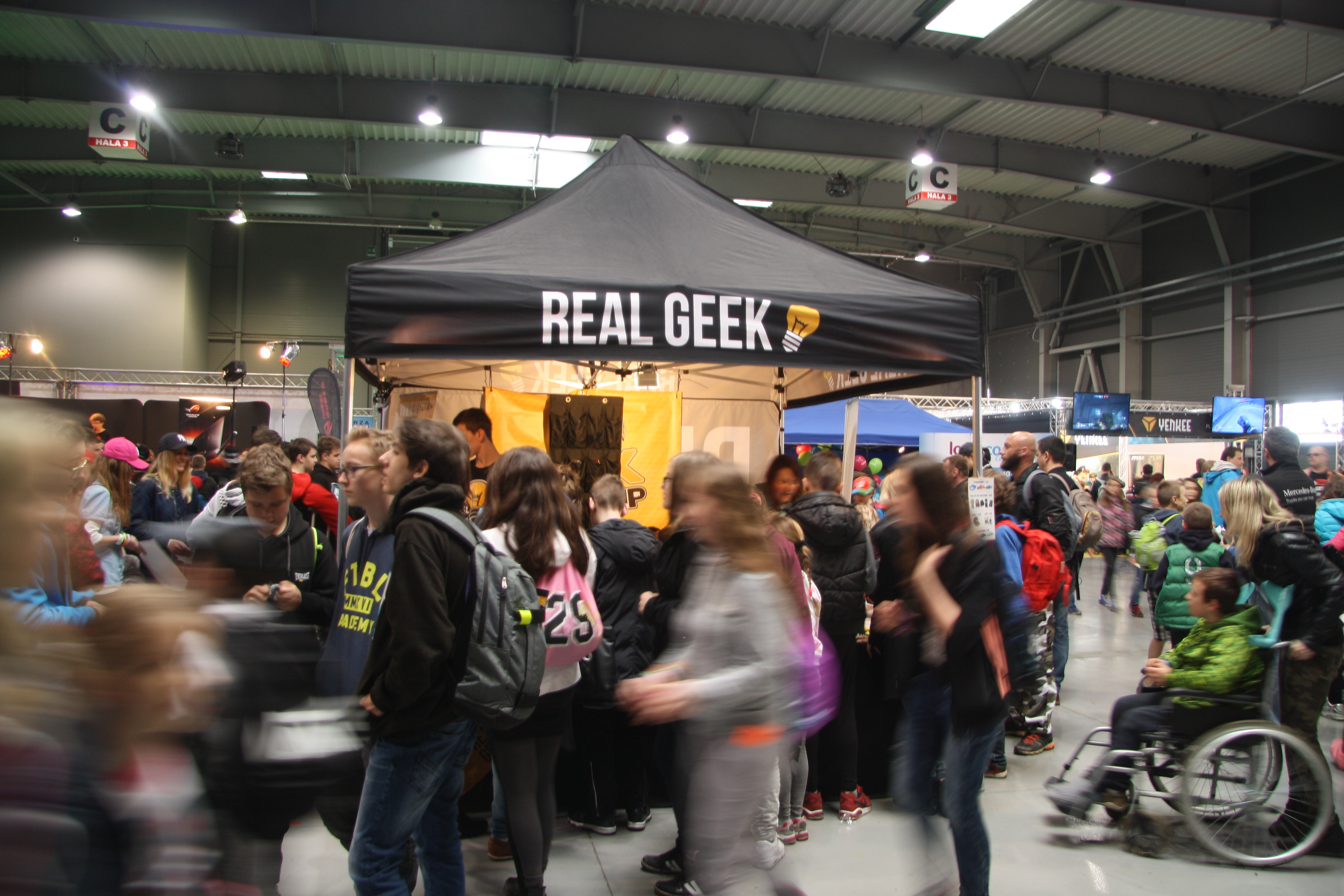 RealGeek stand at Utubering 2017 in Prague.